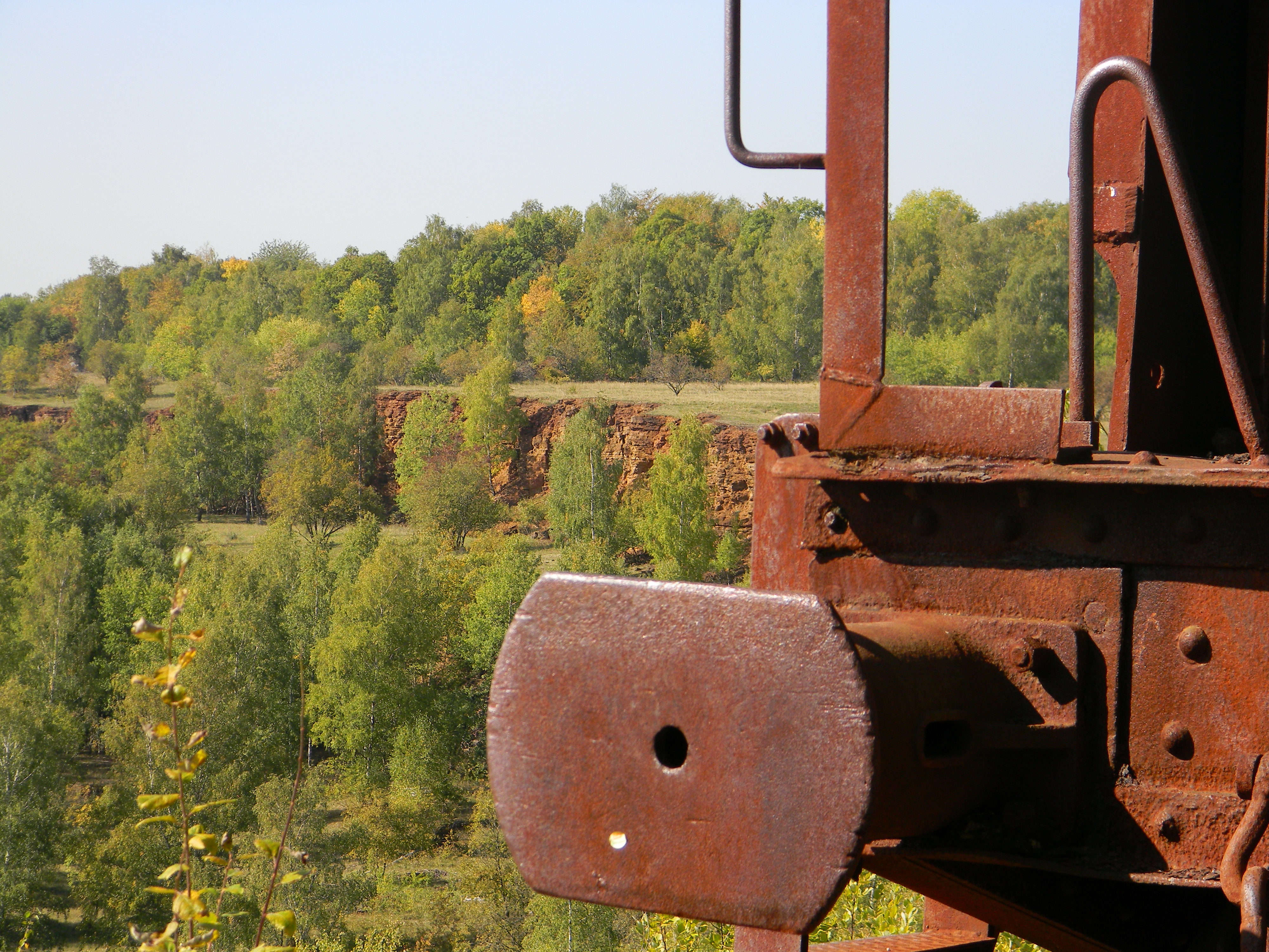 Old mining machine takes on colour of earth